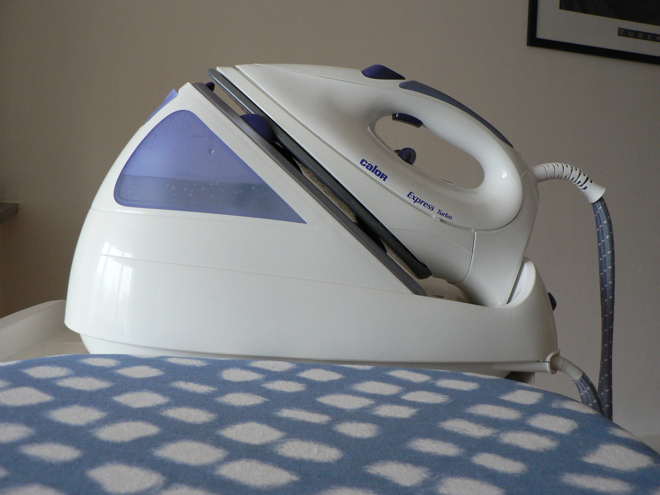 steam iron - Calor Express Turbo 2912 00 - Antwerpen € 200